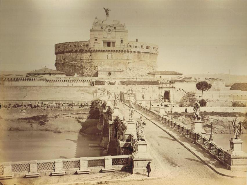 19.3 x 26 cm albumen print on cardboard 1878 with blindstamp